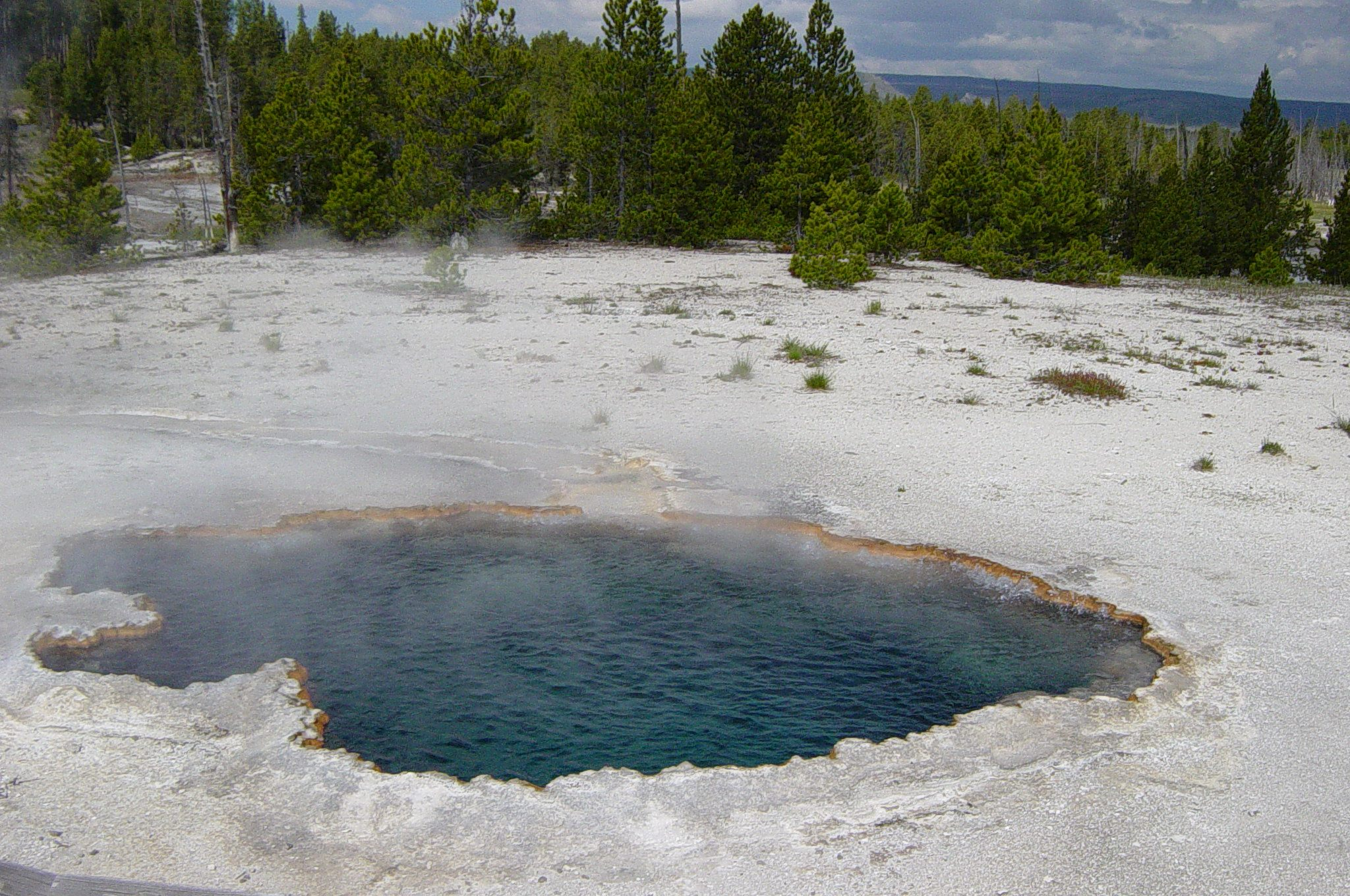 Photo taken in the Yellowstone area.